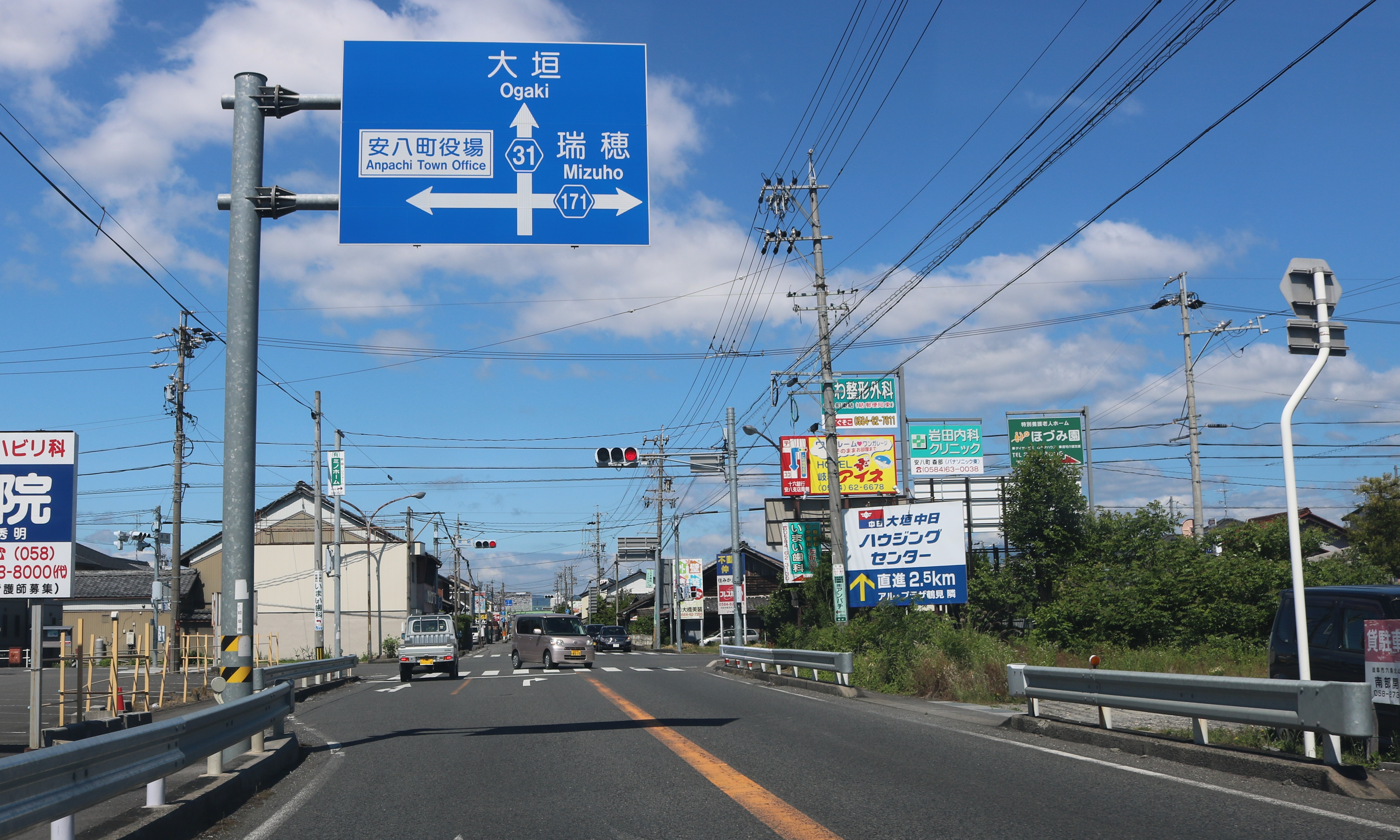 Gifu Prefectural Road Route 31 and Gifu Prefectural Road Route 171 in Higashimusubu, Anpachi, Gifu Prefecture, Japan.